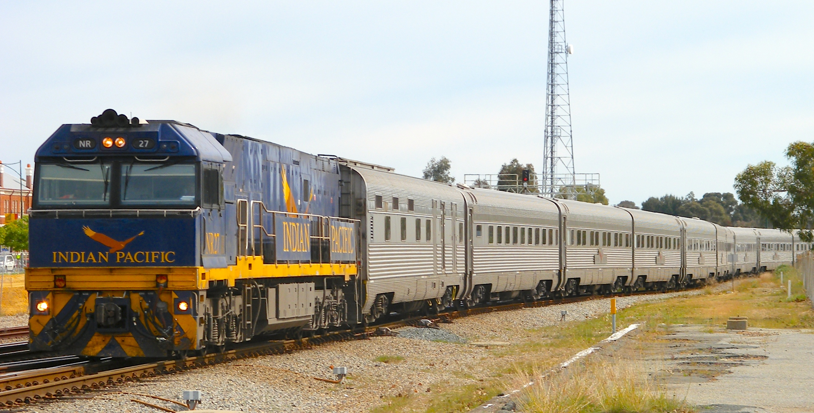 Stainless steel passenger cars of the Indian Pacific train hauled by locomotive NR27 painted in Indian Pacific livery. Photographed in Midland, Western Australia, in 2008, by DBZ2313 at English Wikipedia.